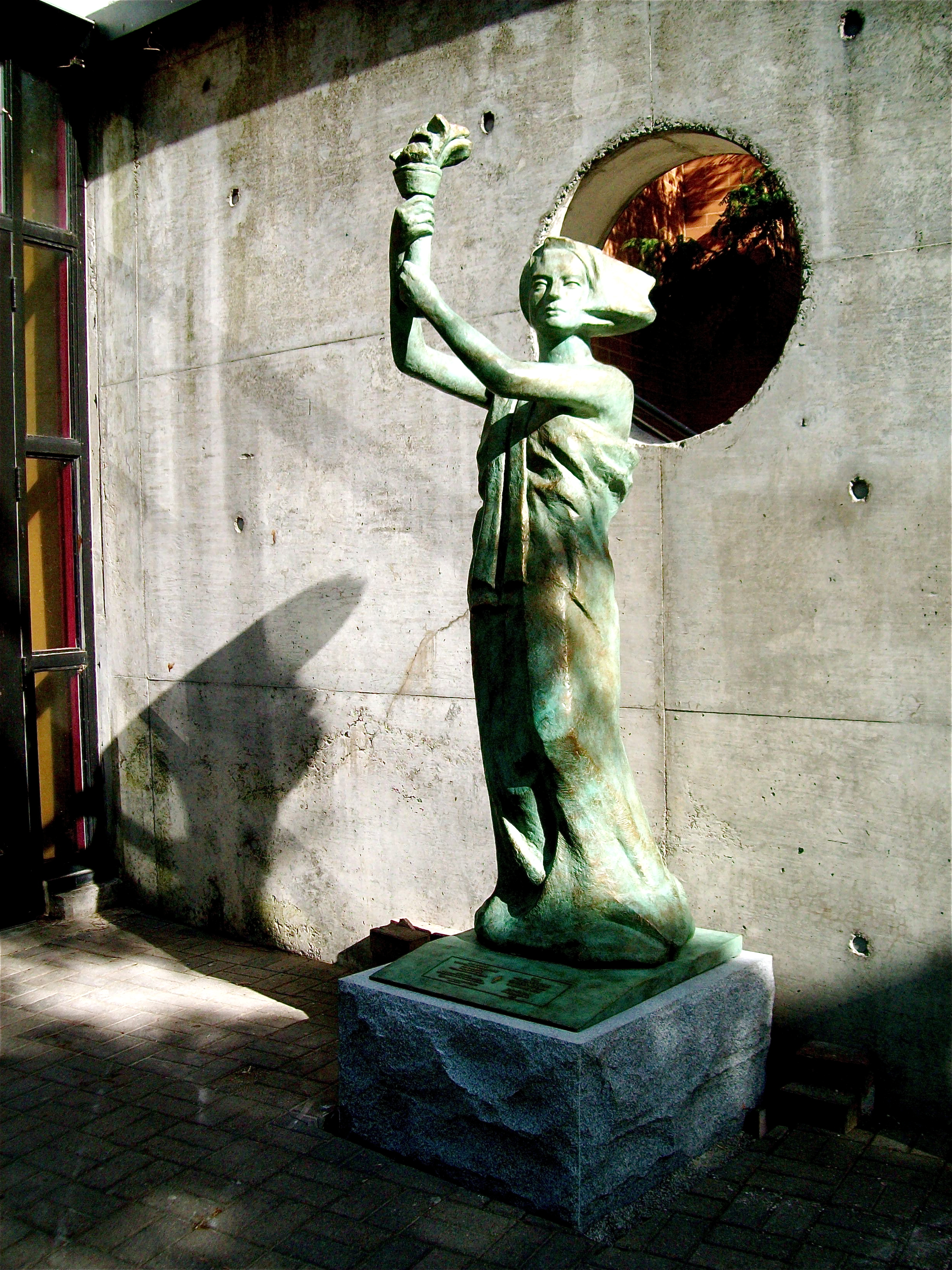 A new statue (bronze replica) of the famous Tiananmen statue "The Goddess of Democracy" was unveiled at York University on 4 June 2012 to replace the old one which deteriorated and was discarded. I took this photo and donate it free of charge for public use. Photo Credit: Edward Fenner. YFile story on the unveiling